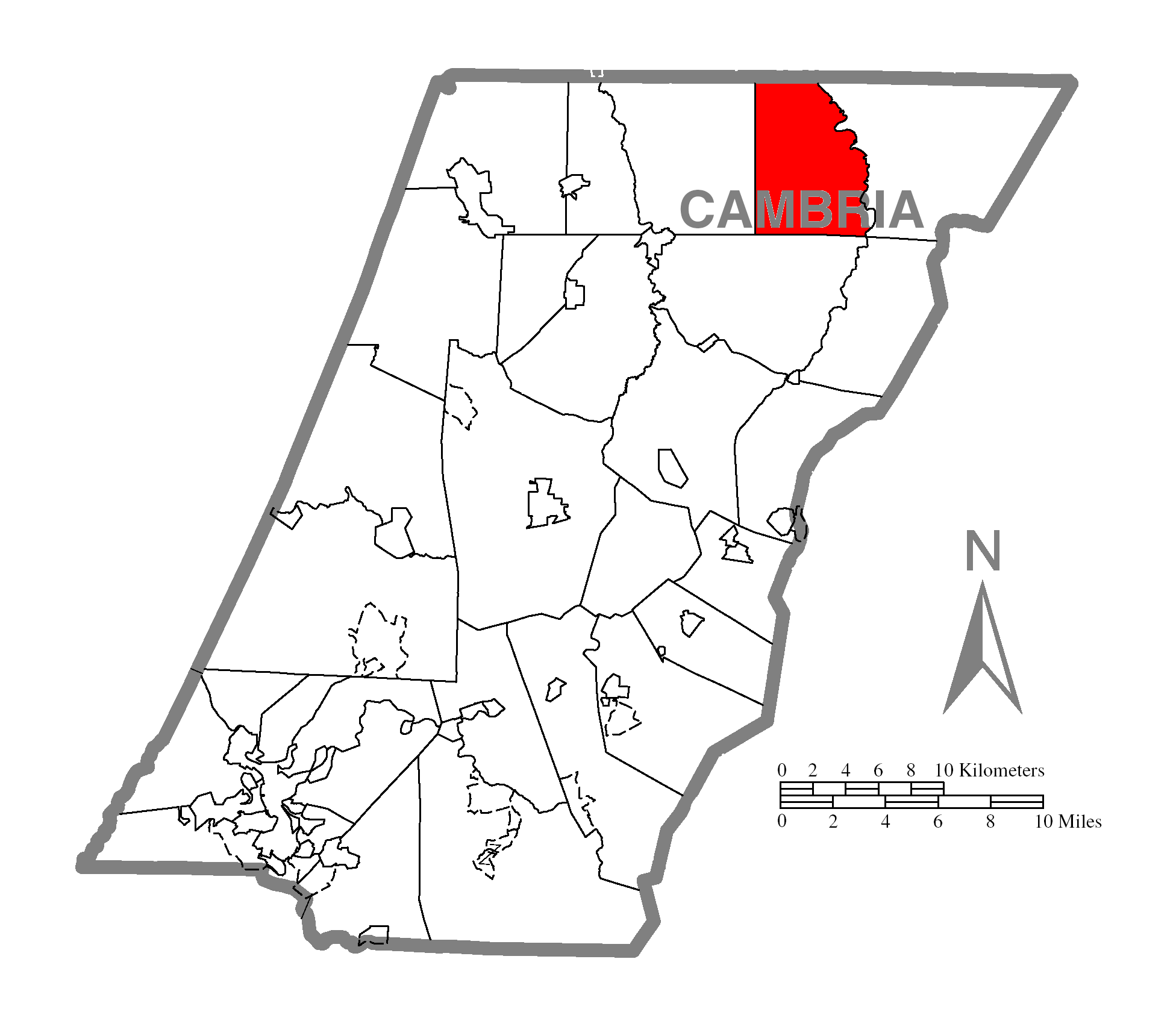 A map of Cambria County showing White Township, Pennsylvania (alternate) highlighted on the map.